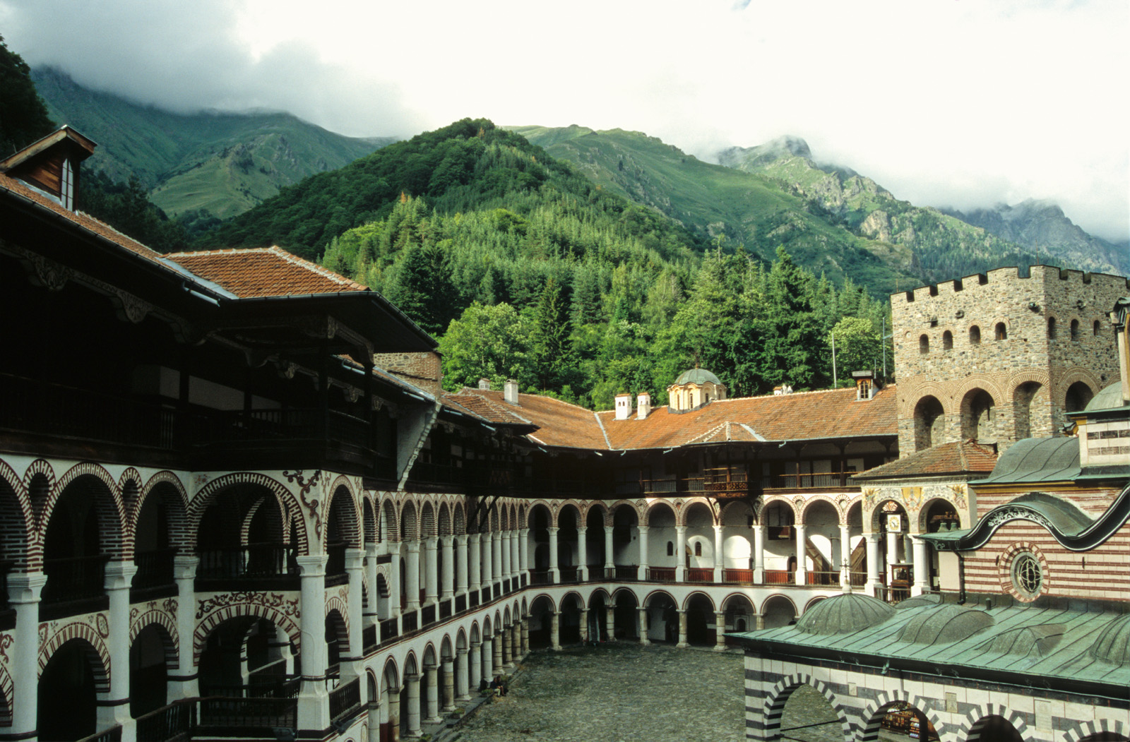 Rila monastery and surrounding mountains, Bulgaria